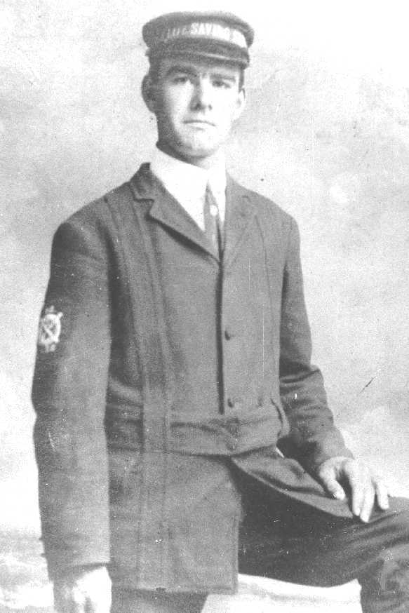 From USCG historian's office: Surfman Howard Daniel Browning of Station Narragansett Pier (#54), Rhode Island, wearing the standard winter-style uniform, circa 1909